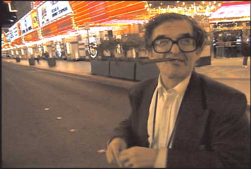 Nathanial "Tex" Gordon, a Fountain House member in "West 47th Street" Lichtenstein Creative Media, Bill Lichtenstein, West 47th Street